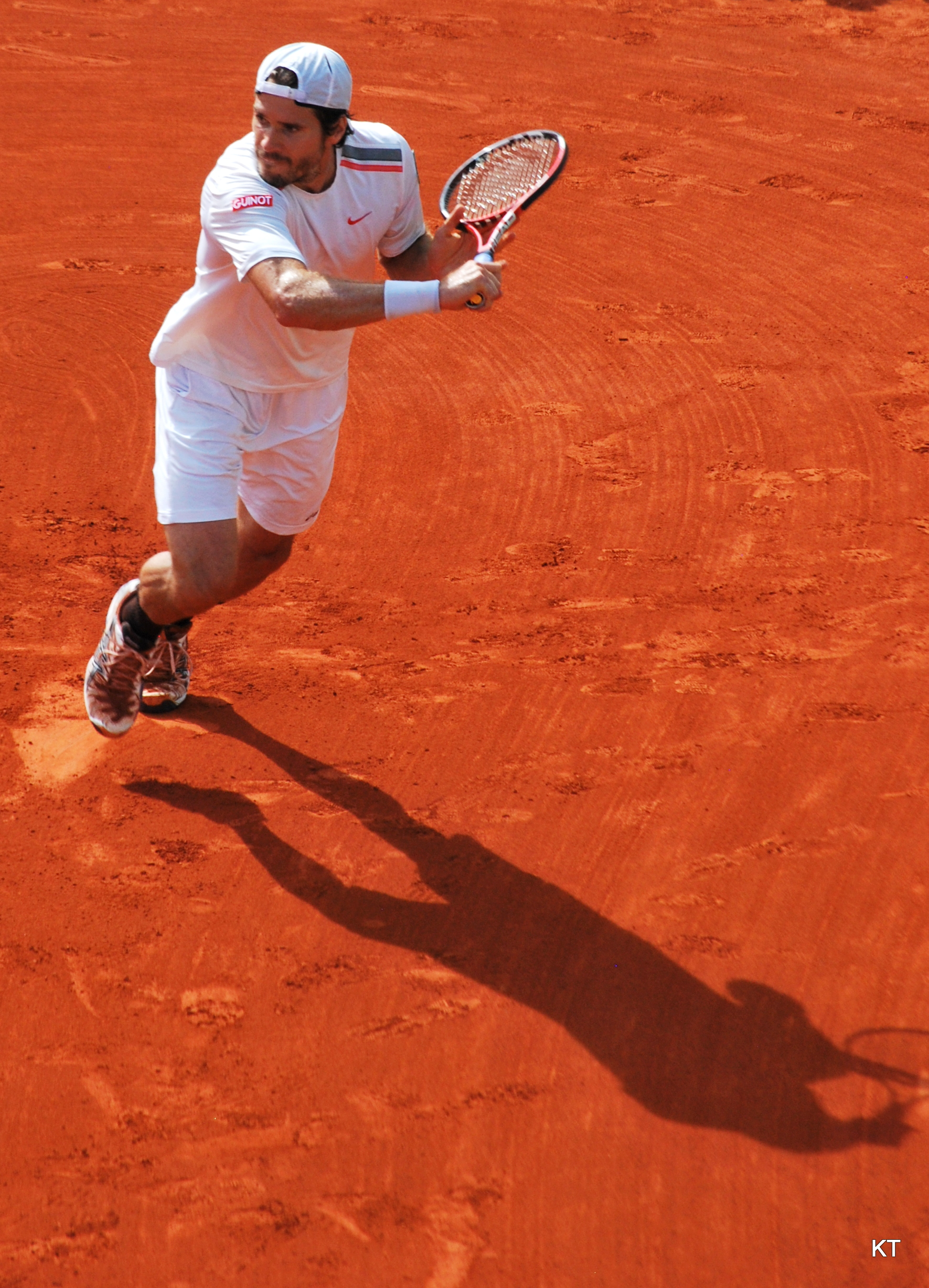 Tommy Haas during his 3rd round match with Richard Gasquet. Gasquet won 6-7, 6-3, 6-0, 6-0. Day 7 of Roland Garros 2012.